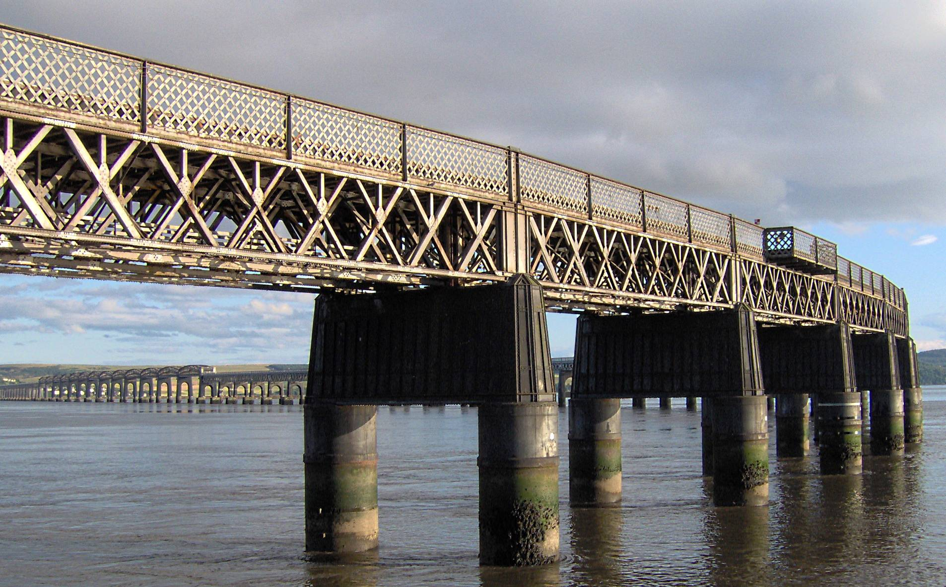 Close view of the Tay Rail Bridge in Dundee.